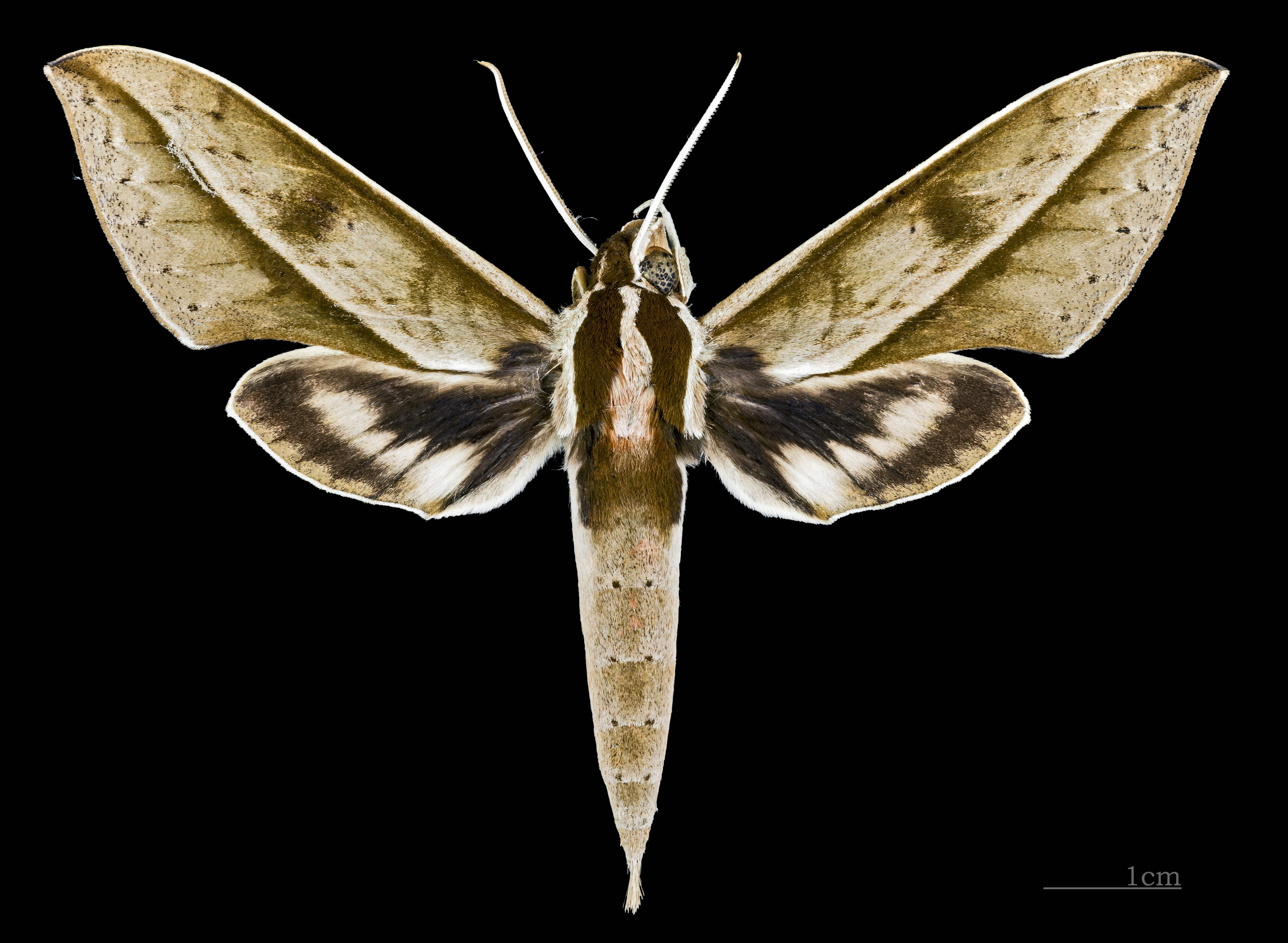 Xylophanes meridanus - Dorsal side